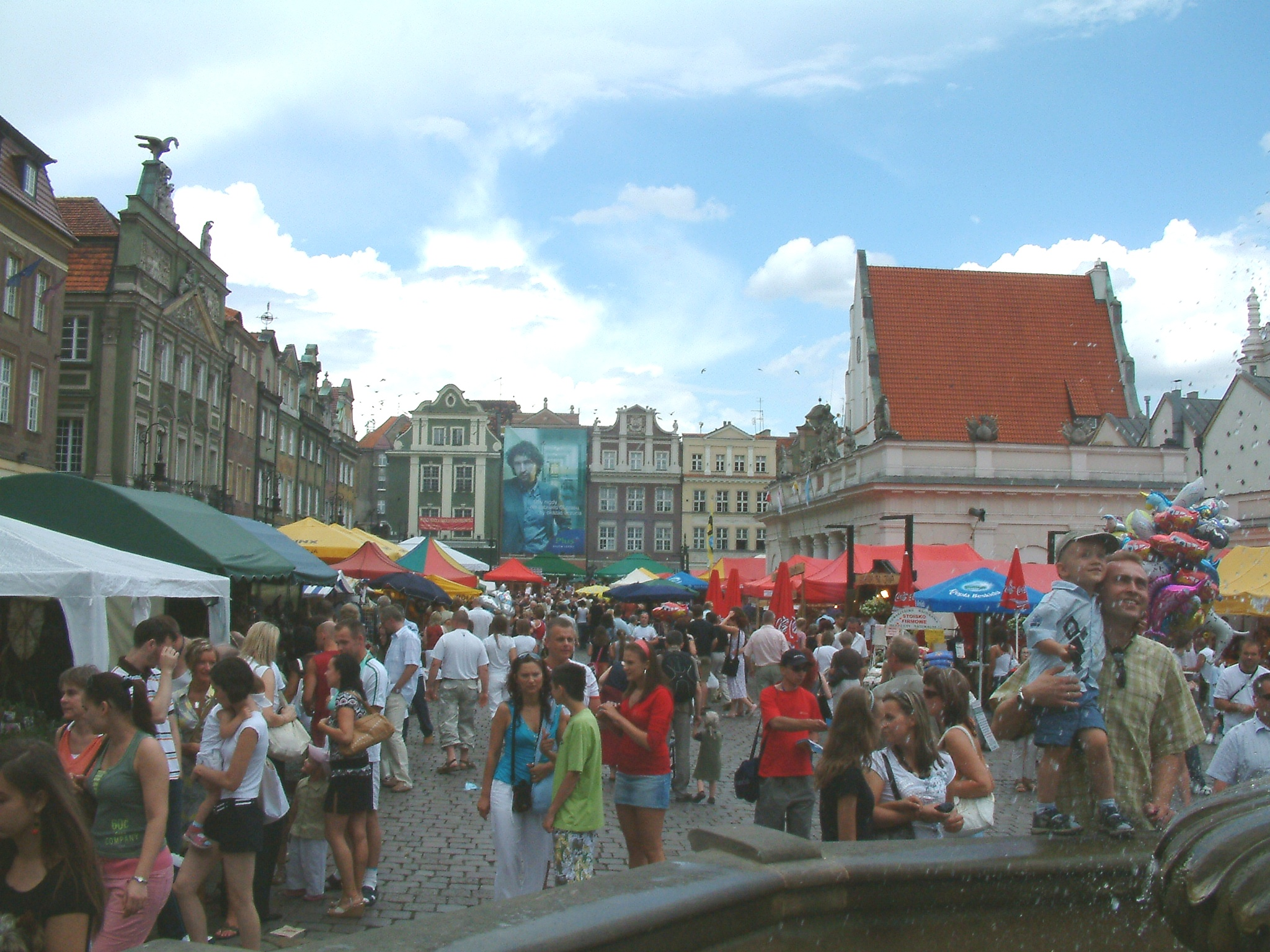 Funfair of St. John in Poznań 2007